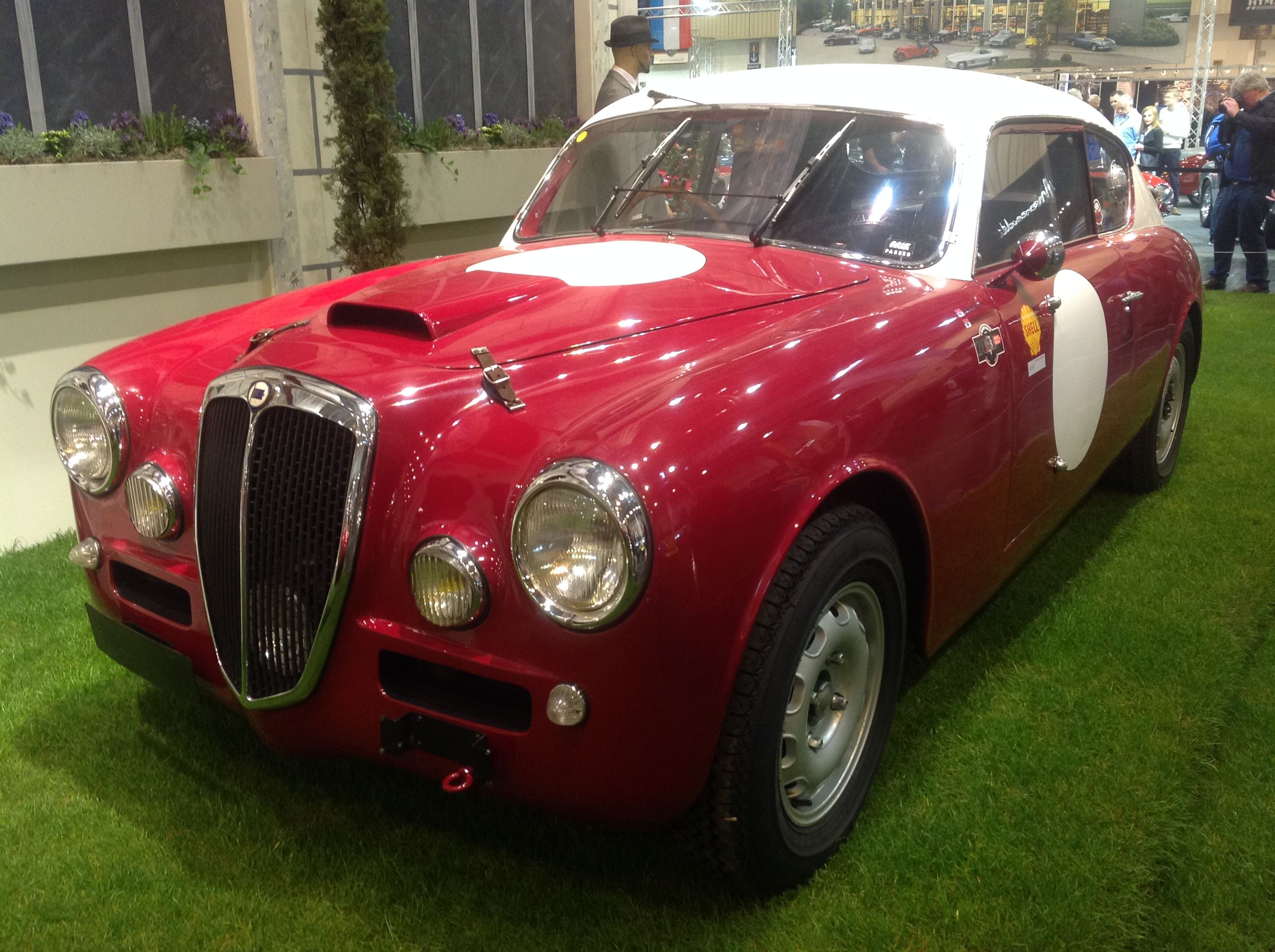 Always a super-elegant shape. Interesting to see a racing version.